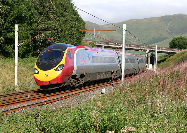 Pendolino at Beck Foot A southbound Pendolino speeds past Beck Foot.